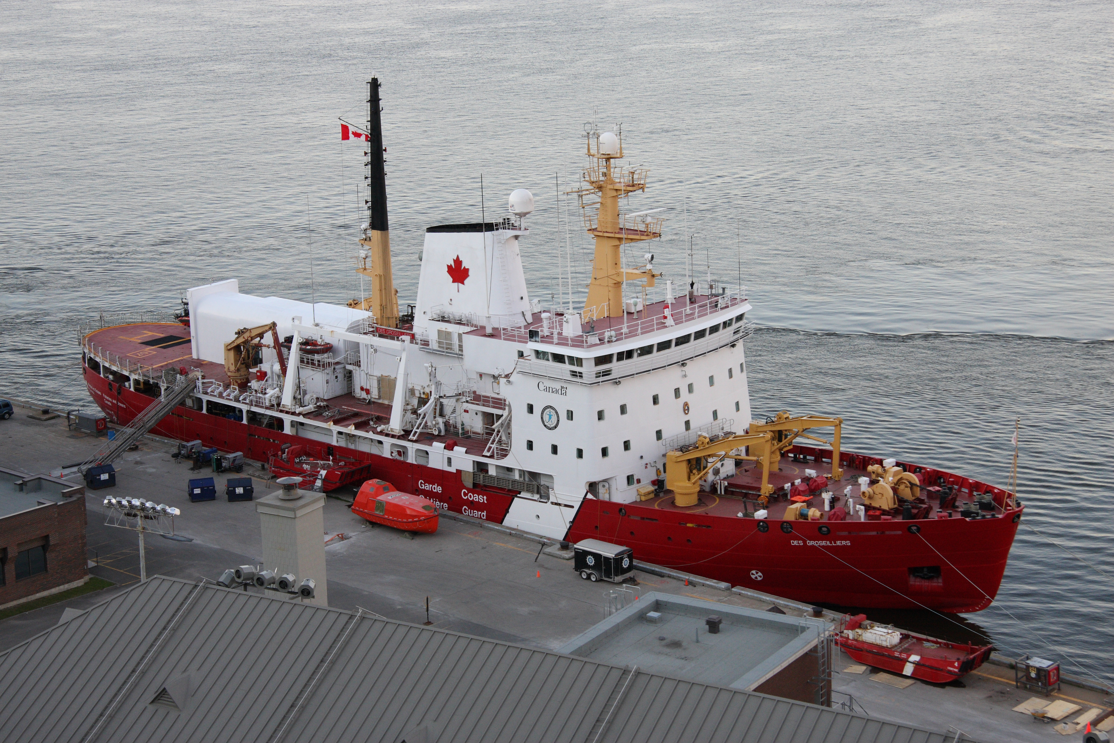 Canadian Coast Guard Ship Des Groseilliers, Quebec City, Canada